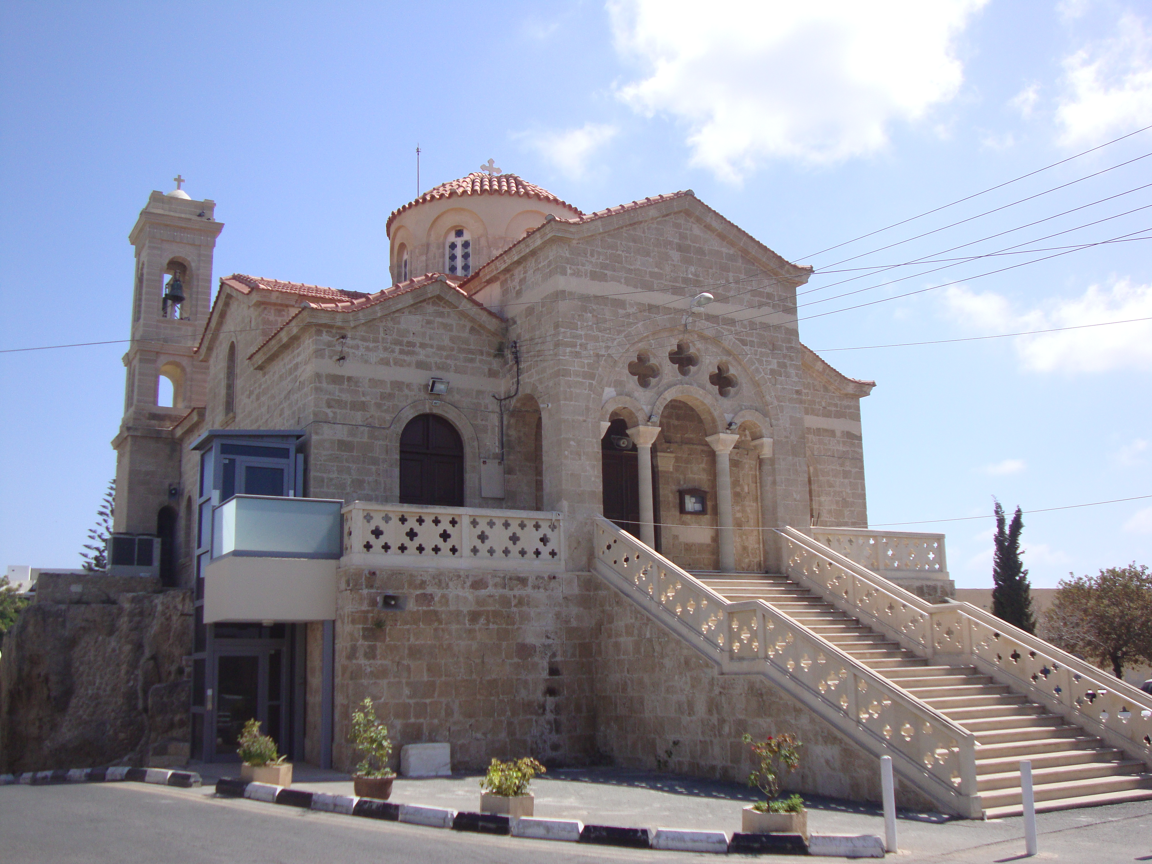 Panagia Theoskepasti (09.2013)